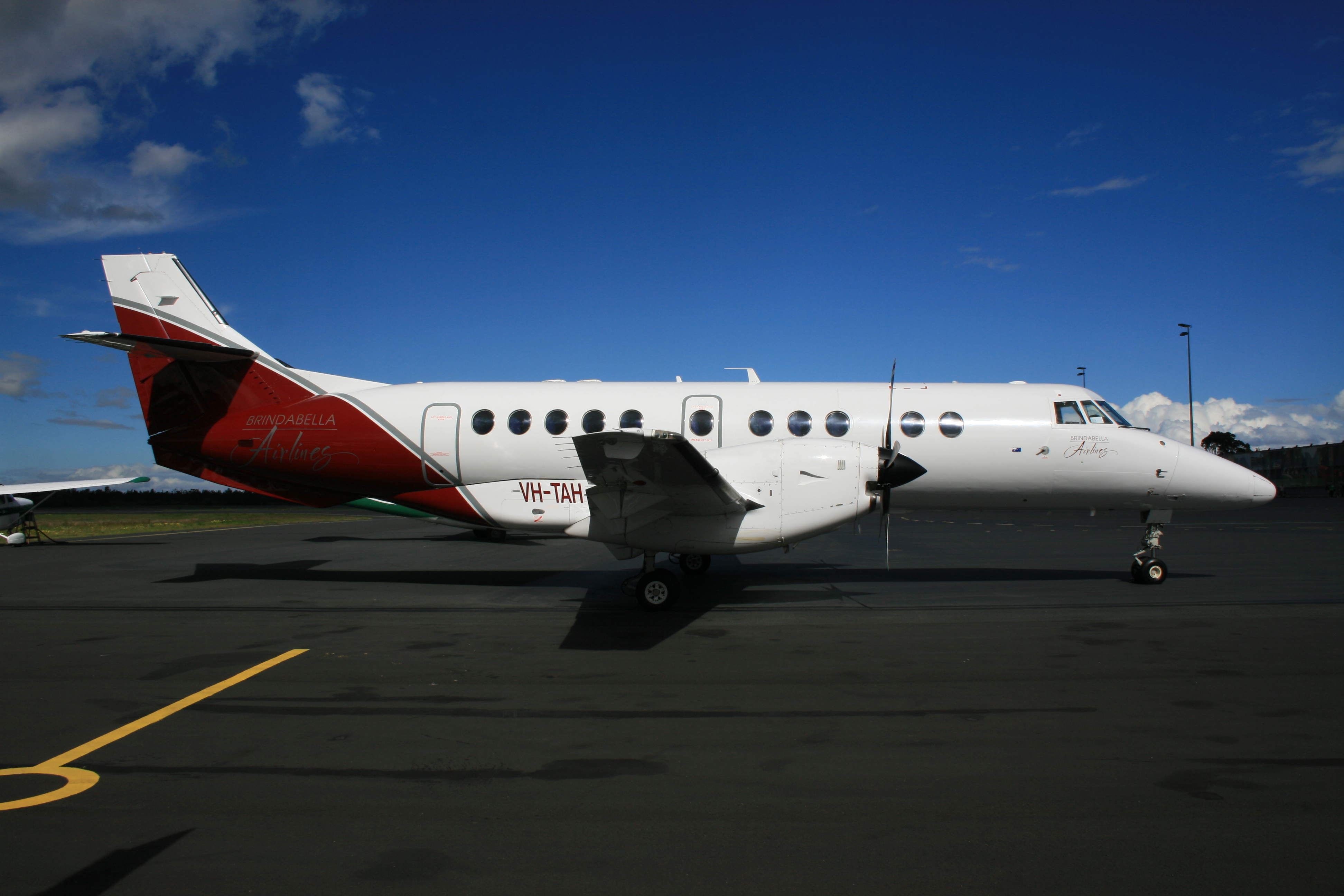 A Brindabella Airlines British Aerospace Jetstream 41 at Hobart Airport. Digital image of VH-TAH taken by YSSYguy on 13 October 2009 and uploaded for use in the Brindabella Airlines article. YSSYguy (talk) 21:17, 19 February 2014 (UTC)